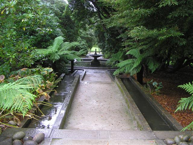 Neptune cascade, Holker Hall The noise of water running down a series of steps on either side makes it quite peaceful